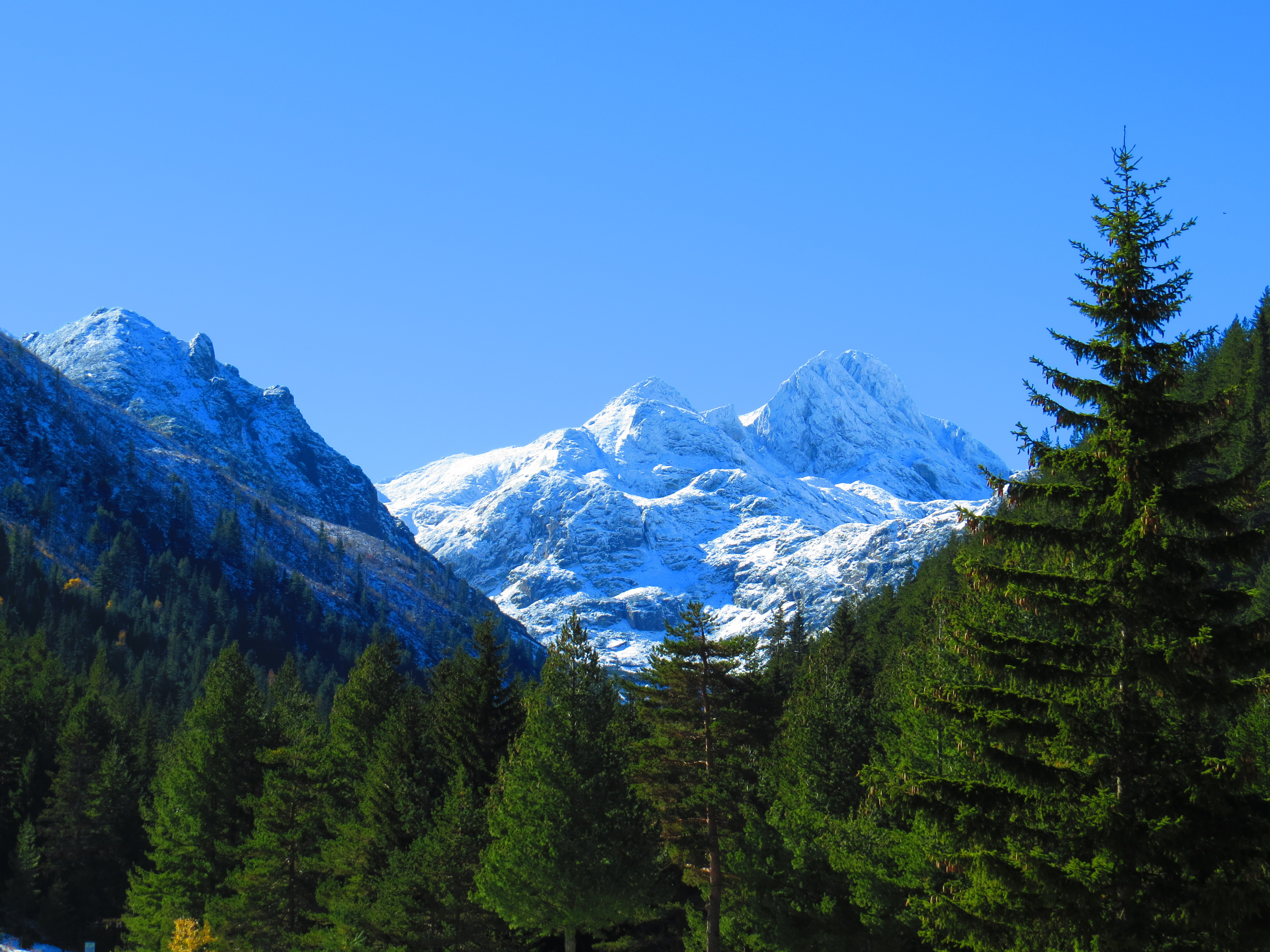 Peak Malyovitsa in Rila Mountain, Rila National Park, Bulgaria